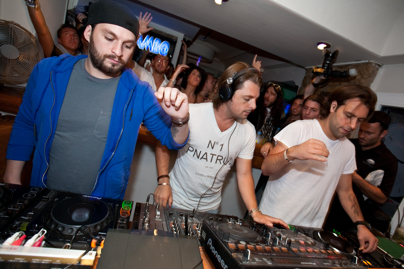 Steve Angello, Axwell and Sebastian Ingrosso at Café Mambo in Ibiza (Summer 2011)